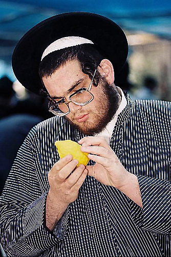 IS IT REALLY KOOSHER?